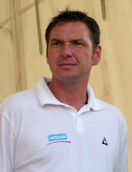 The German sporting manager and former racing cyclist Jan Schaffrath at the team presentation for the Deutschland Tour 2006 in Düsseldorf, Germany.